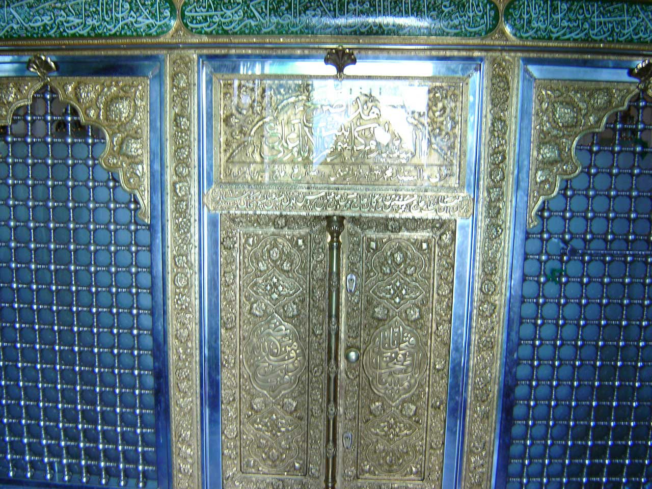 Baab Sagheer: Tomb of Umm Kulthum bint Imam Ali (A.S.)